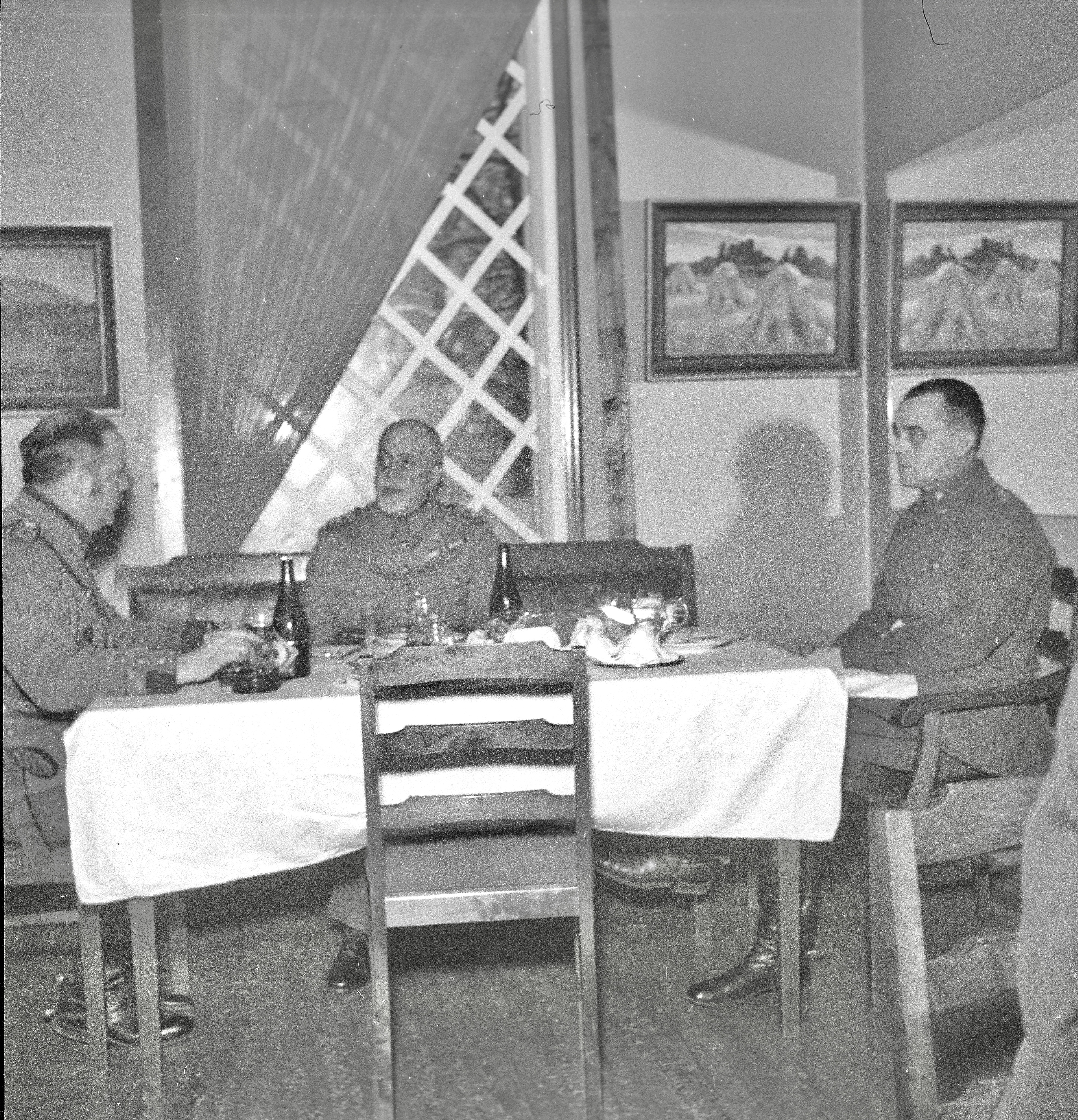 Receive office of foreign volunters in Tornio during winter war of Finland in January 1940. Persons from left General Wallenius, general Ignatius, and colonel Arajuuri.